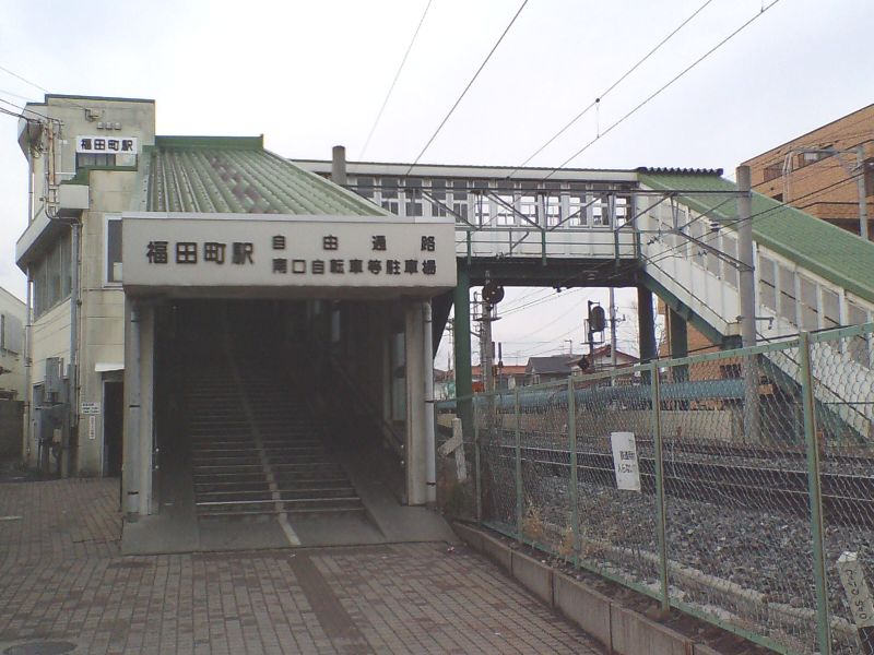 Fukudamachi Station, Sendai, Miyagi, Japan